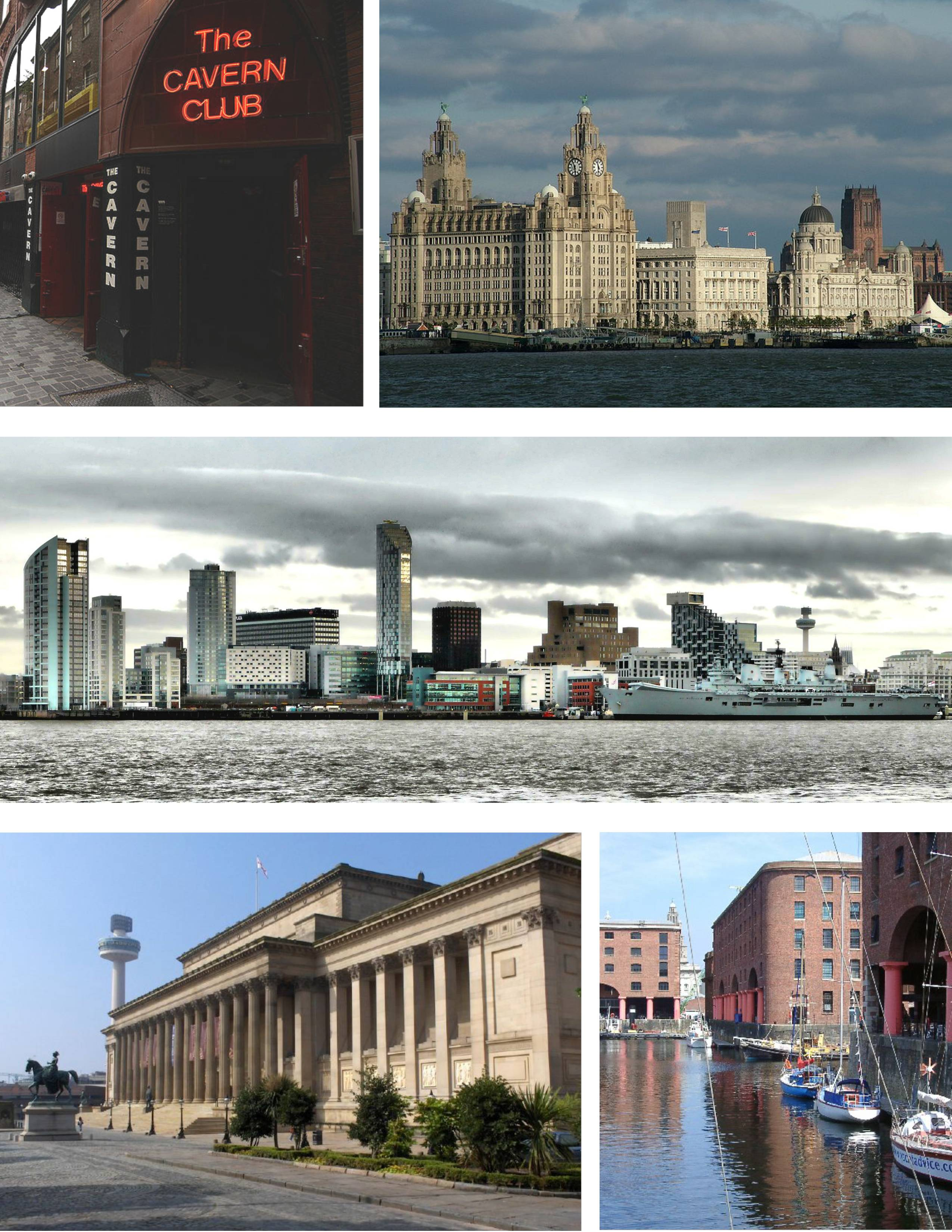 Montage of several images of Liverpool from Wikipedia Commons